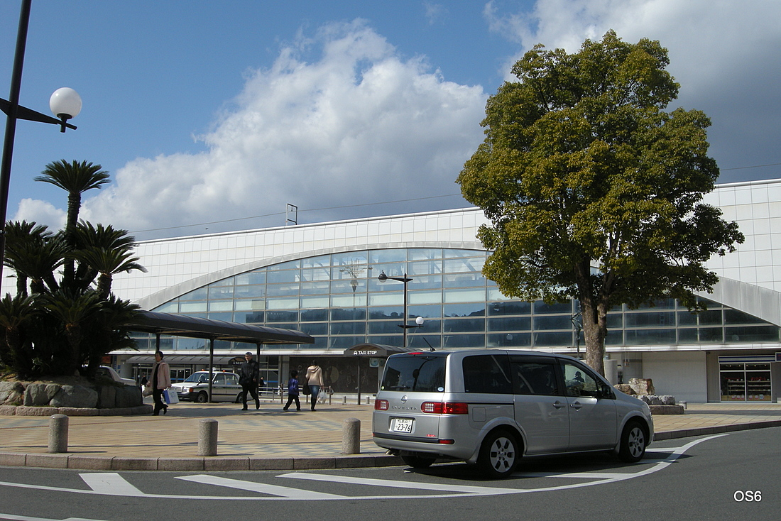 防府駅 Hofu station